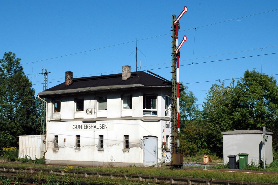 signal tower "Guf" at Guntershausen station.